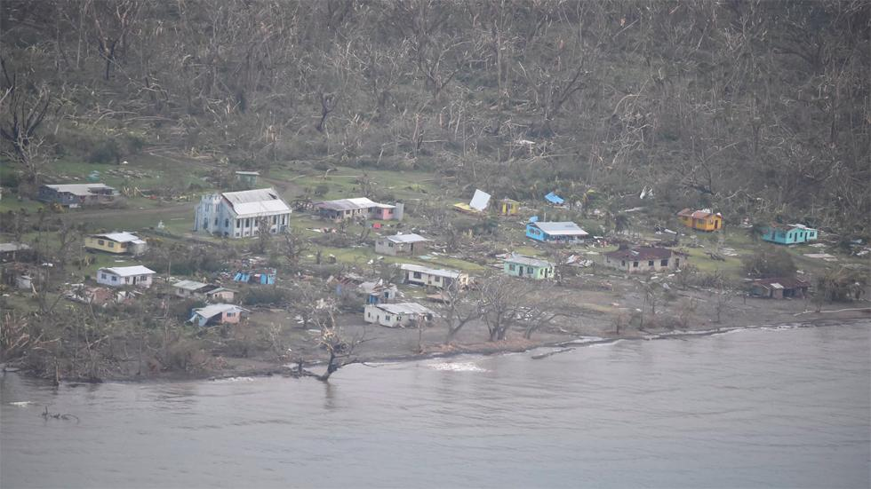 This picture clearly shows the effect of Cyclone Winston on Nabuna Village.